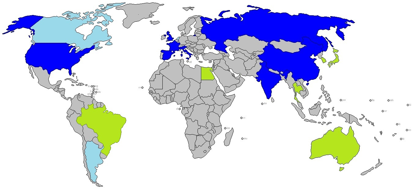 Countries currently operating aircraft carriers in dark blue, countries currently solely operating helicopter carriers in green, countries who in the past operated aircraft carriers but currently do not in light blue.